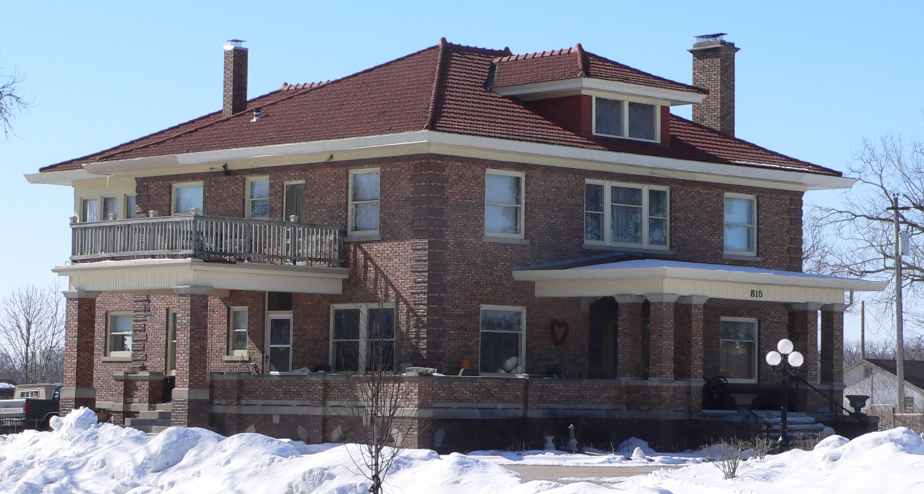 Albert and Lina Stenger House at 815 Lovers Lane, Columbus, Nebraska; seen from the northeast. The Prairie School house was built in 1907, and is listed in the National Register of Historic Places.